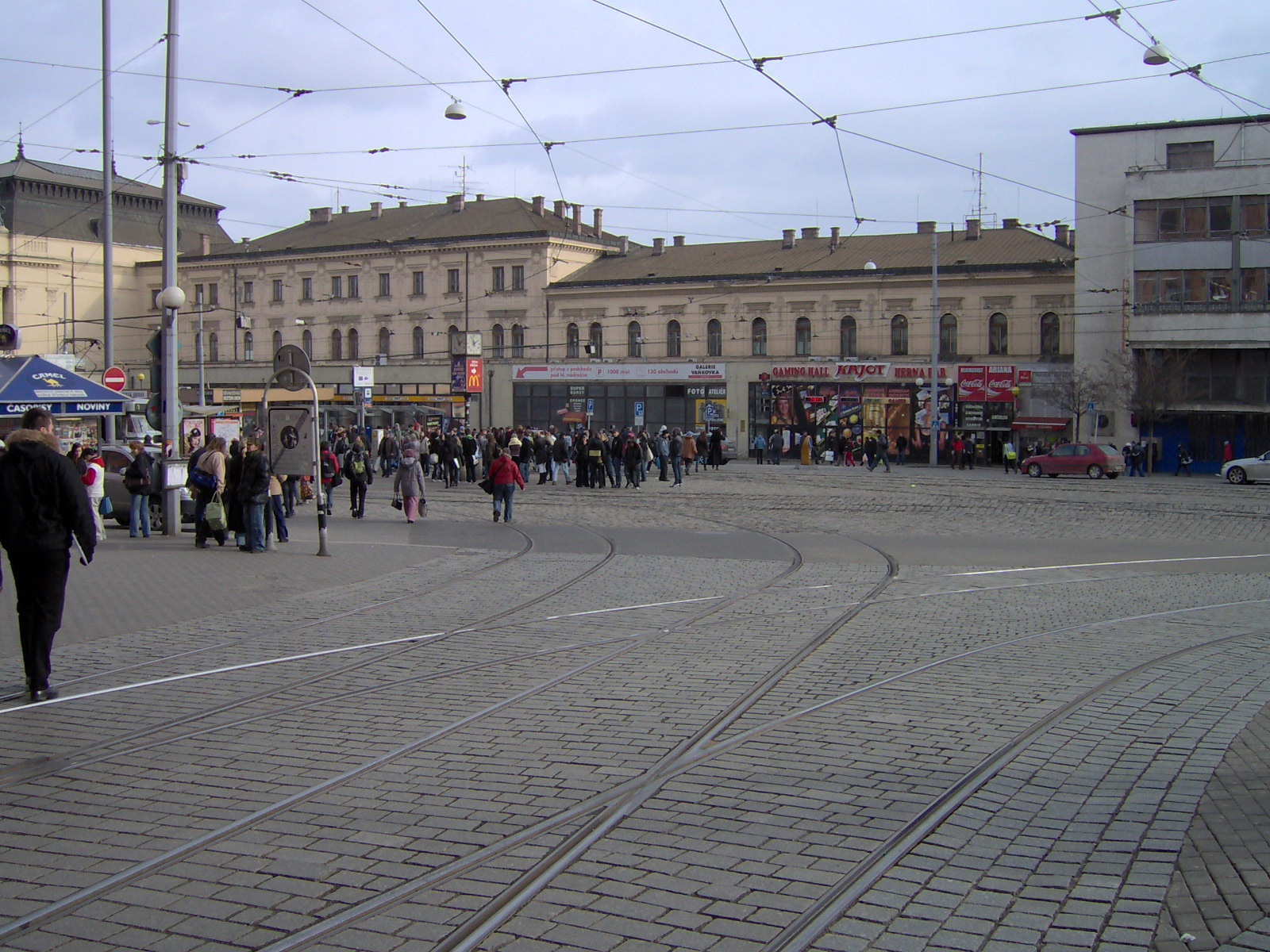 Tram tracks in Masaryk and Nádražní street, Brno, Czech Republic